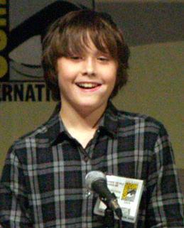 Max Records promoting the 2009 film Where the Wild Things Are at San Diego Comic-Con.